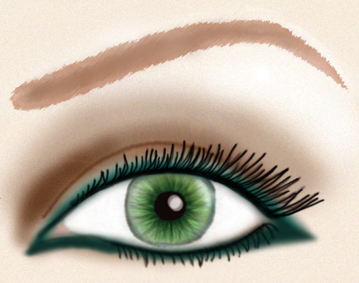 Allie Darum